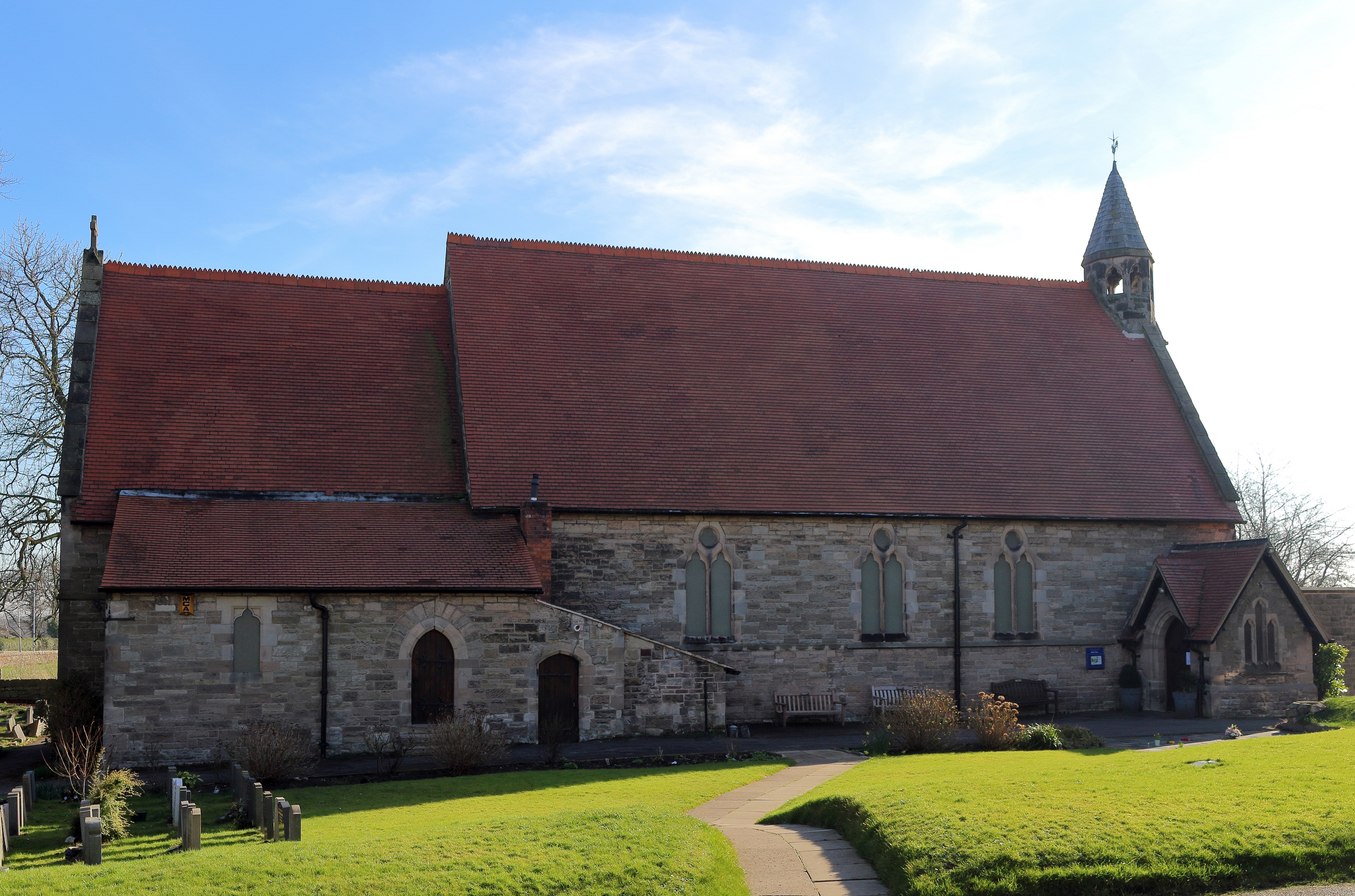 View of the north side of Christ Church, Barnston, from the main path through the churchyard.